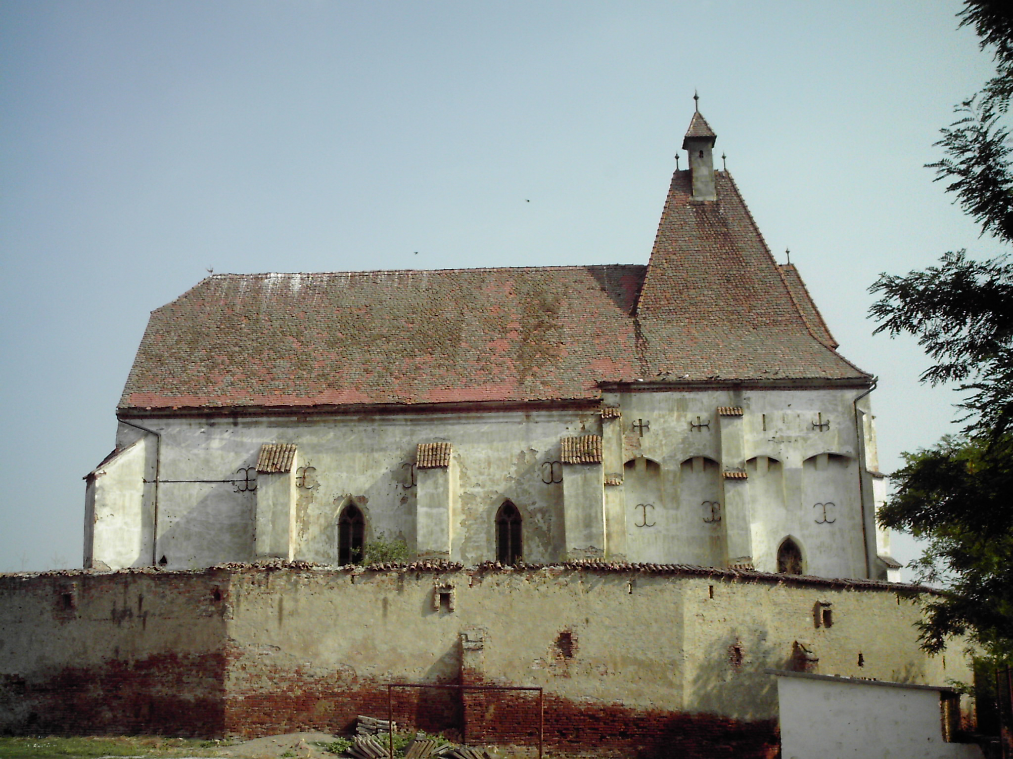 Southern wall of the fortified church in Boian